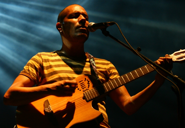 Perrozompopo, 2007.